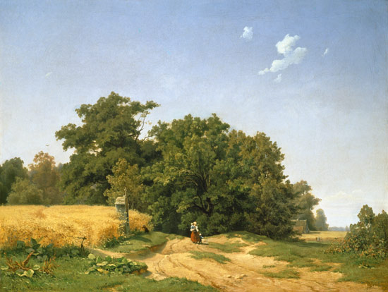 "Westphalian Landscape". Oil canvas.